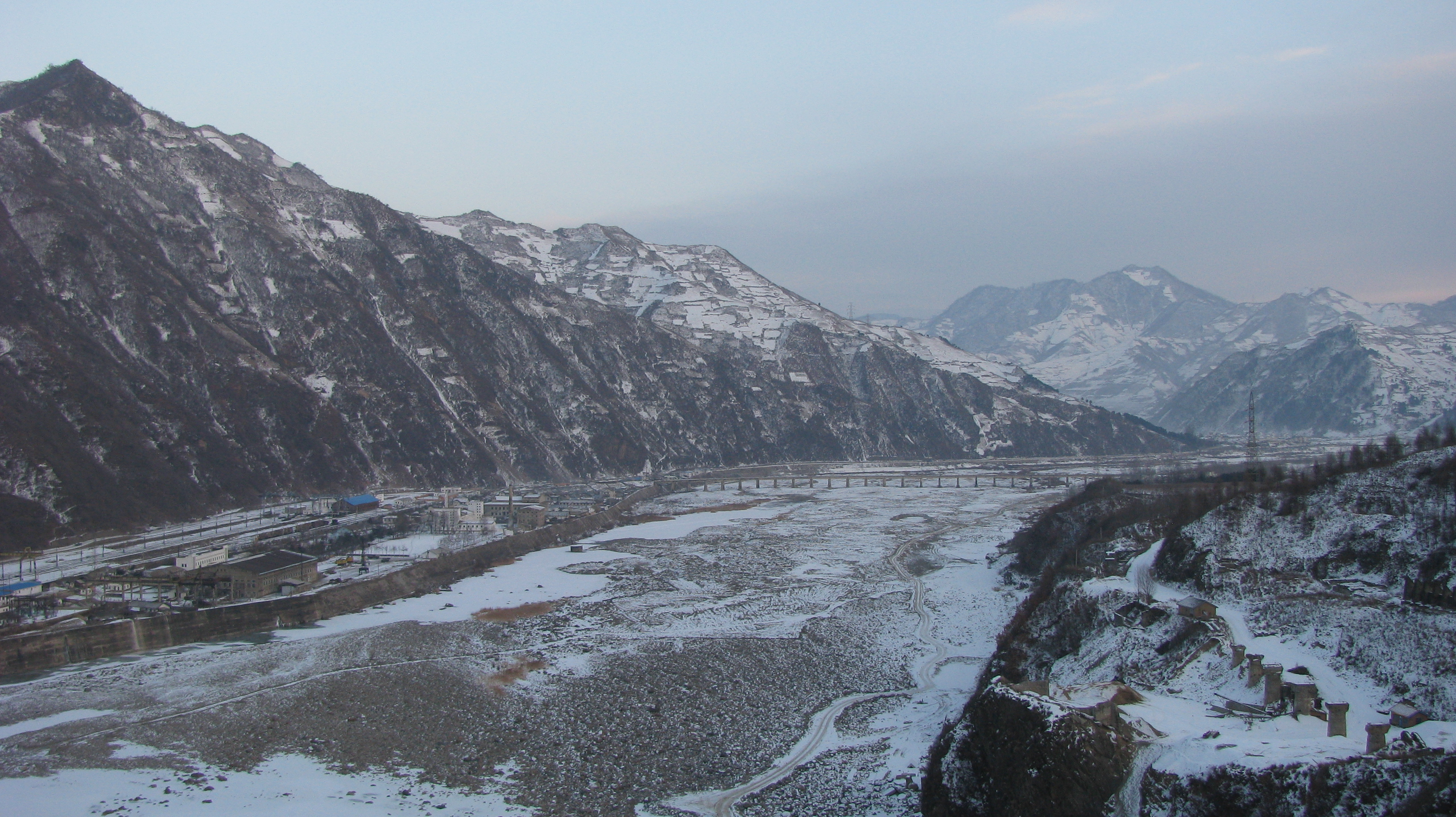 The Yalu River seen from the Yunfeng dam with a railway bridge and a factory. North Korea on the left, China on the right.